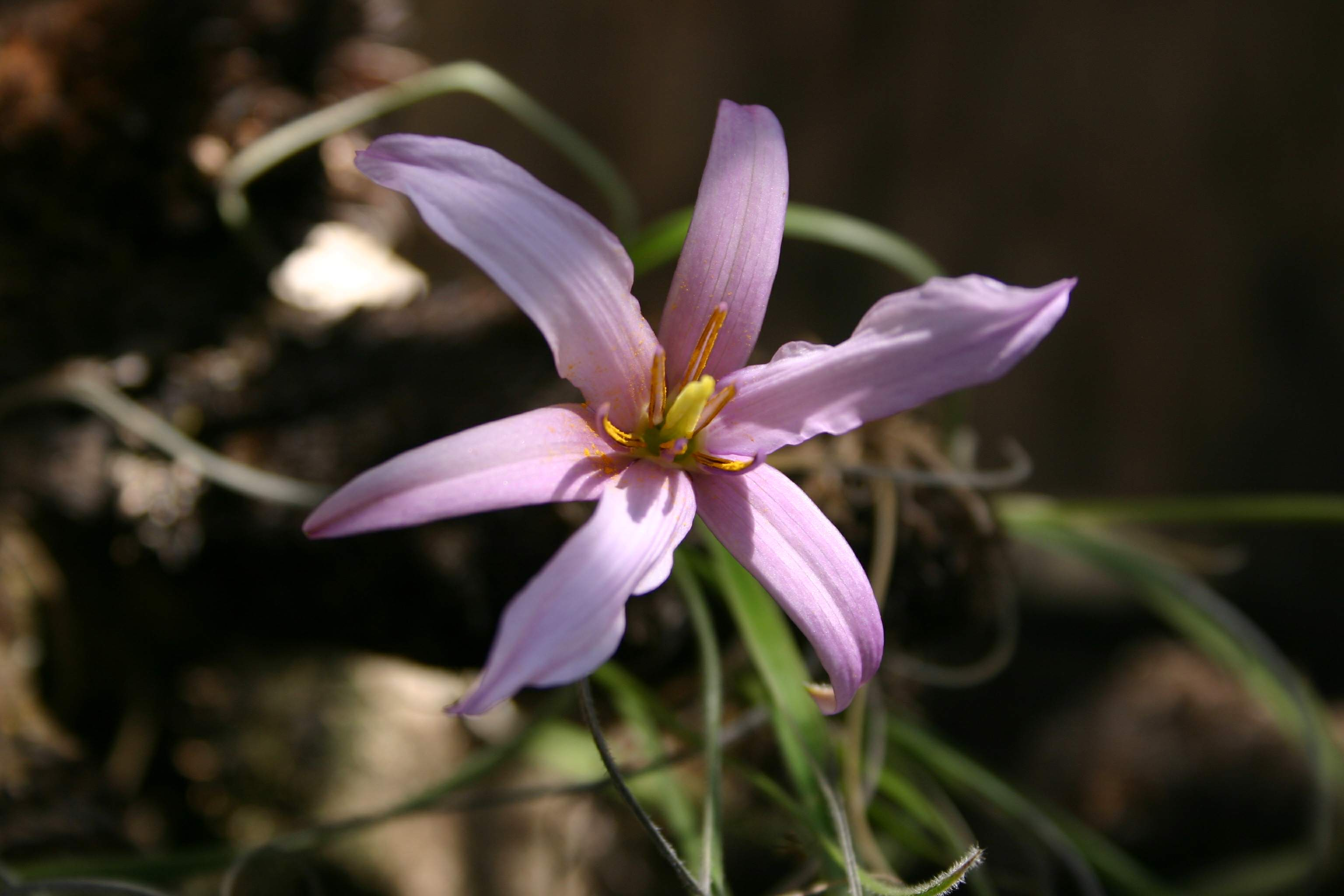 Closeup of Xerophyta retinervis Bak. flower - cultivated in Johannesburg, South Africa